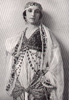 Amelita Galli-Curci as the title role in "Lakmé". Pre-1923 photo scanned from old copy of "the Victrola Book of the Opera"